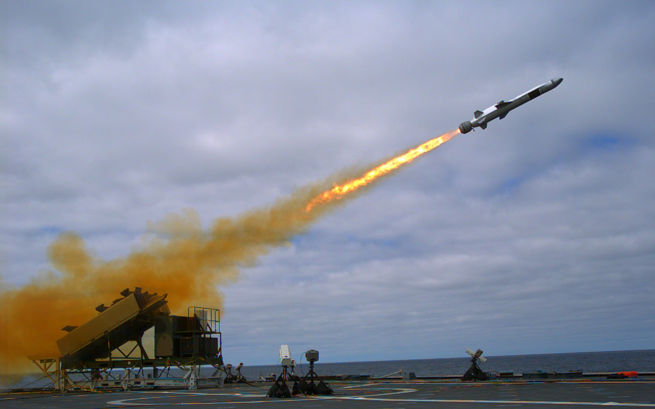 A Kongsberg Naval Strike Missile (NSM) is launched from the U.S. Navy littoral combat ship USS Coronado (LCS-4) during missile testing operations off the coast of Southern California (USA). The missile scored a direct hit on a mobile ship target.